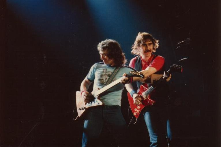 Bernie Marsden /Micky Moody Whitesnake Hammersmith Odeon 1981 This is my favourite band/group photo. Love the light effect. Front row of Hammersmith Odeon May 1981. Got it enlarged to A4 size last year and sent it to Bernie Marsden asking him to sign it. He sent it back signed by himself and Micky Moody. He even phoned me to make sure it came back ok. It`s now pride of place over my desk at home. What a true gentleman and all round good egg..! He`s still got that guitar too.